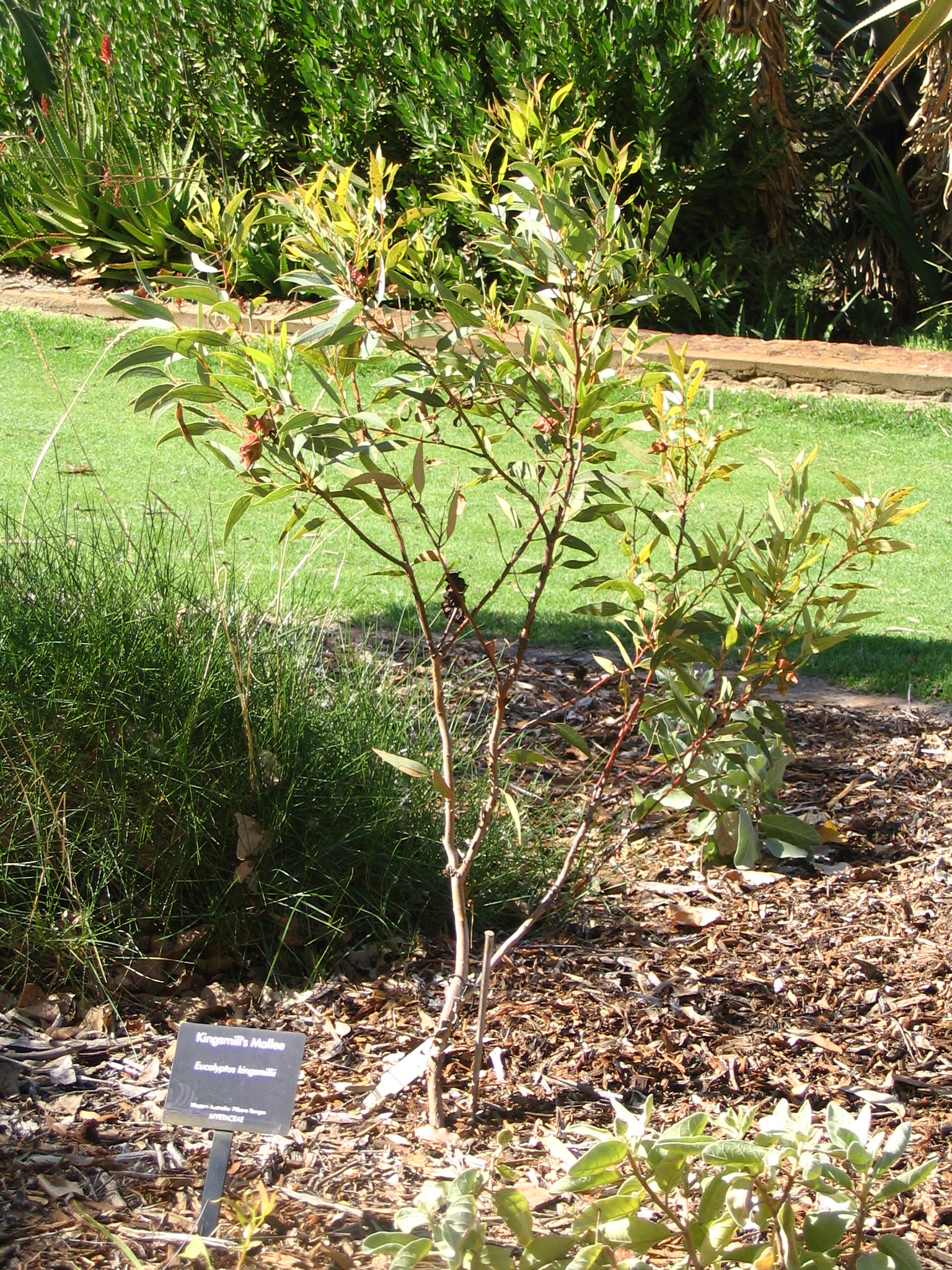 Kingsmill's Mallee (Eucalyptus kingsmillii) plant in Kings Park, Perth, Australia.